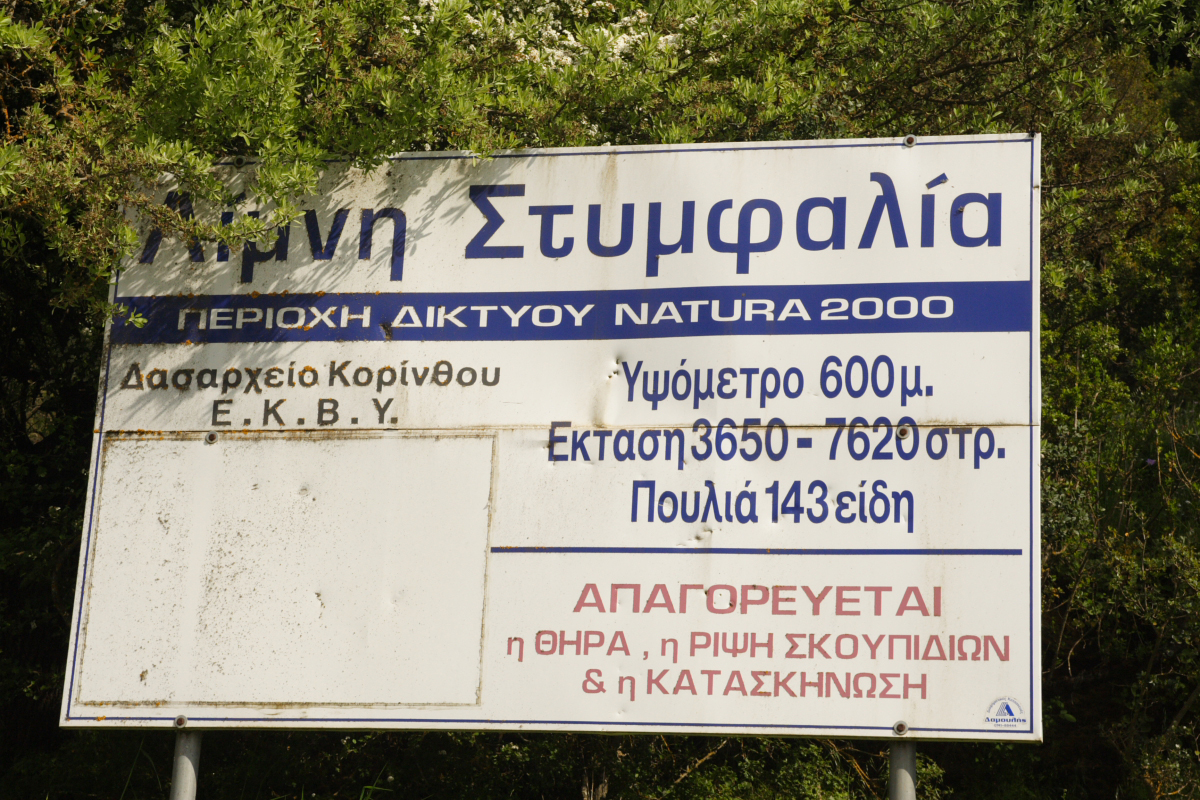 Environment Protection under "Natura 2000" Forest office: Prefecture Korinthia PROHIBITED: Hunting, waste desposal, camping